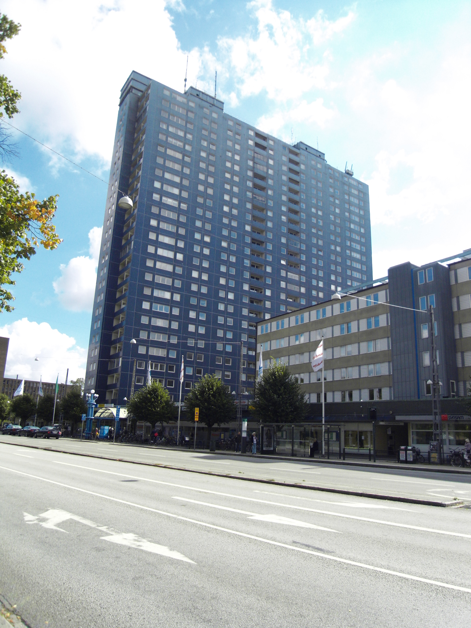 This is the scyscraper the Crown Prince (Swedish: Kronprinsen) situated in the city of Malmo. The picture is photographed 11 September, 2013.